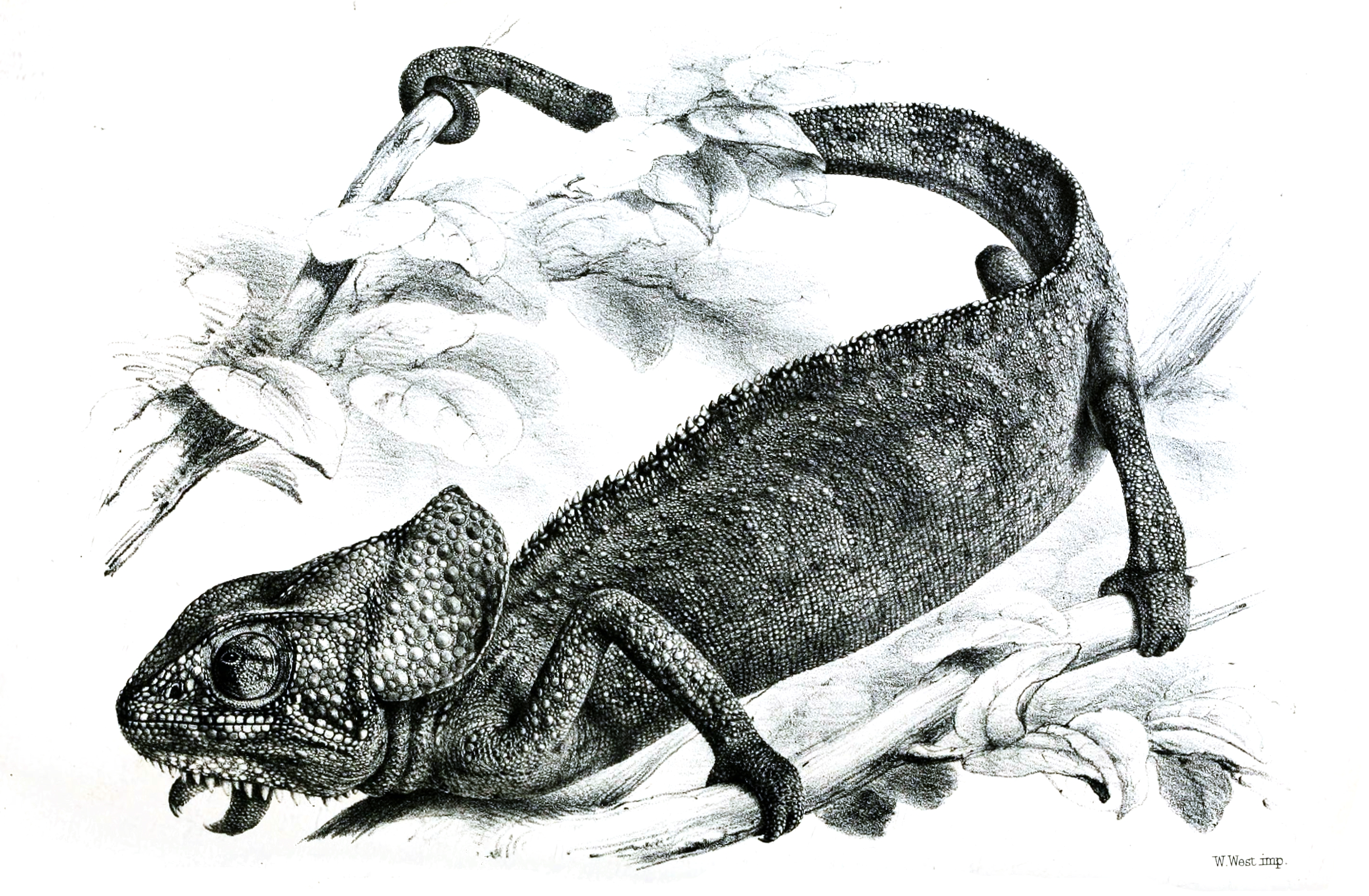 Socotran Chameleon